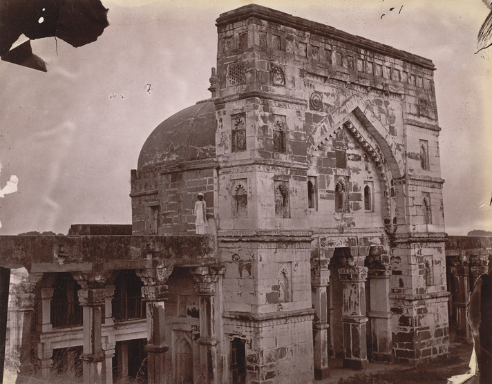 Creator: Photographer : Beglar, Joseph David Date: [1870] ; 1870s Geographic coverage: 82.683334,25.733334 ; Jaunpur Description: Main faÃ§ade of the Lal Darwaza Mosque in Jaunpur, Uttar Pradesh, from the Archaeological Survey of India Collections, taken by Joseph Beglar in the 1870s. The Lal Darwaza Mosque, or Red Door Mosque is the smallest of the Jaunpur mosques, built in c.1450. It was part of a palace complex planned by Bibi Raja, the Queen of Mahmud Shah (r.1436-58). The plan derives from the Atala mosque of 1408, albeit on a reduced scale, with a similar tall pylon infront of the dome in the centre of the facade of the main sanctuary. However, the Lal Darwaza differs from its prototype in one significant respect; the screened upper compartment of the zenana is placed in a central position adjoining the nave instead of at the far end of the transepts. This is an oblique view from the south-east.